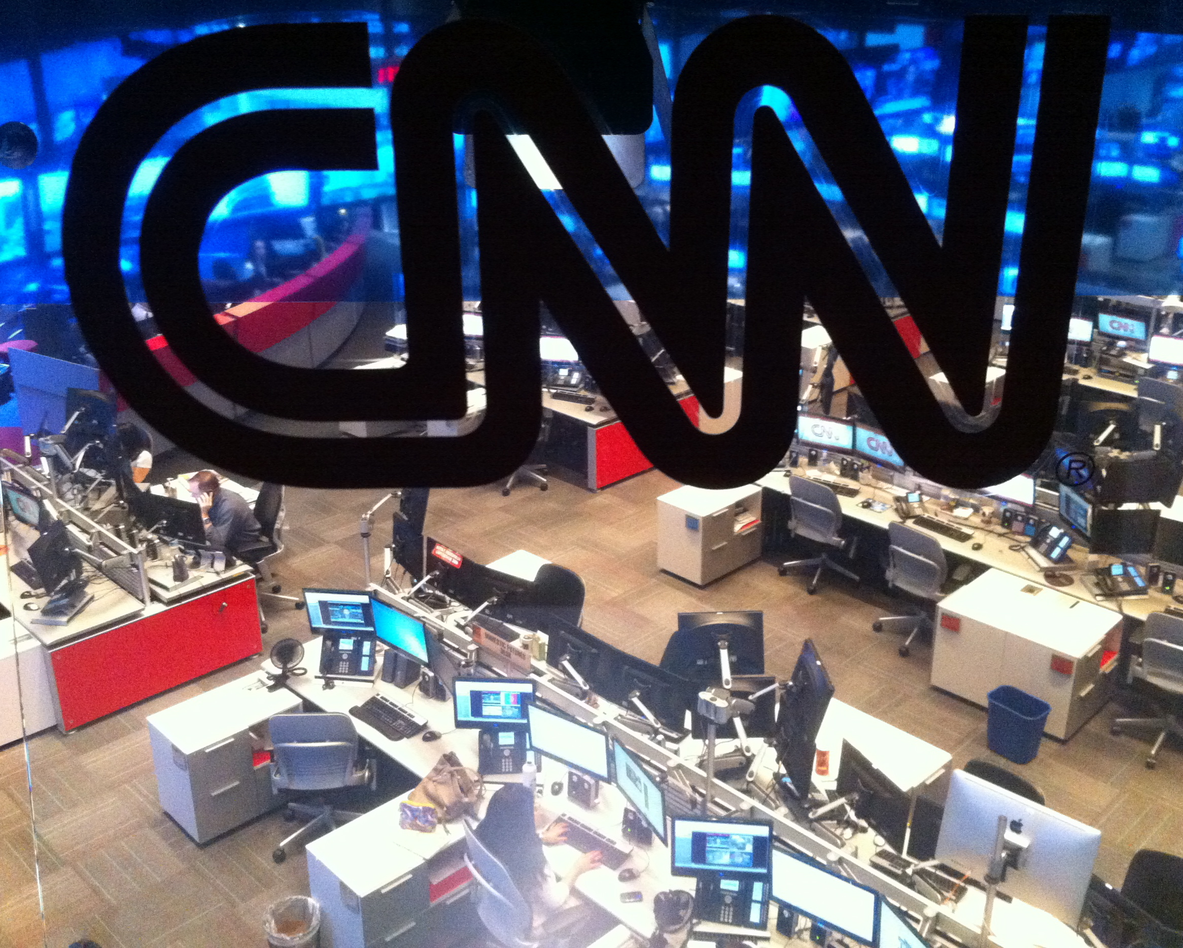 CNN Atlanta newsroom